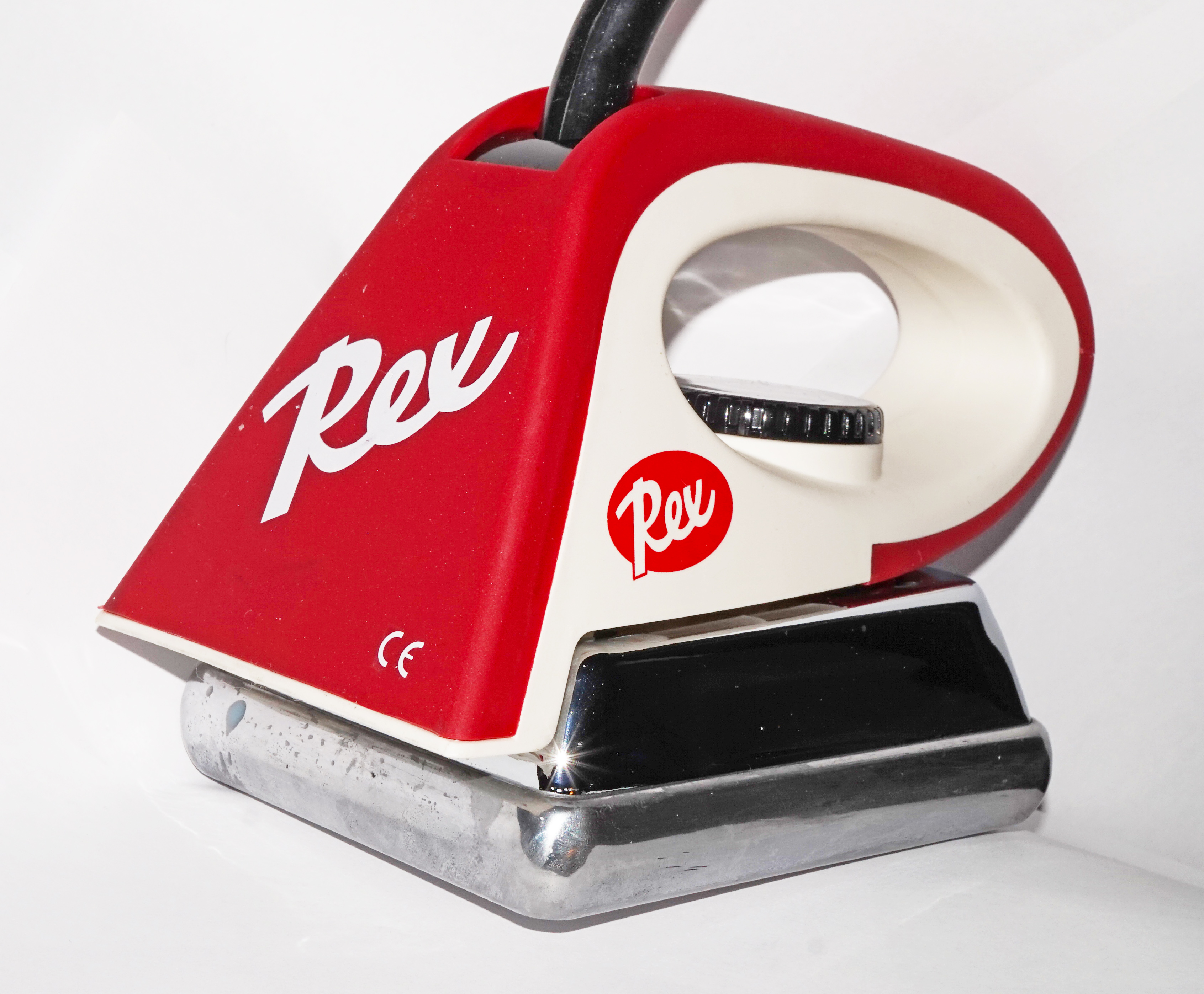 Ski wax ironing device Rex.